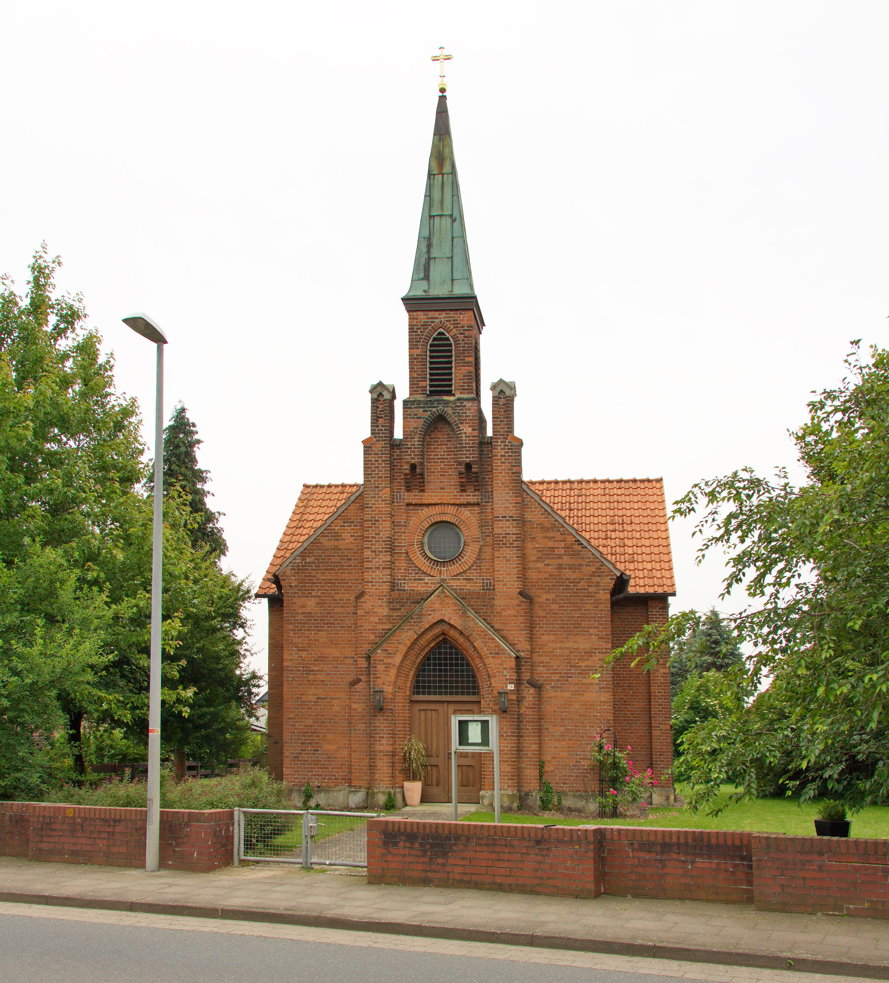 St.-Vitus-Kirche Suttorf (Neustadt am Rübenberge), Niedersachsen, Deutschland.